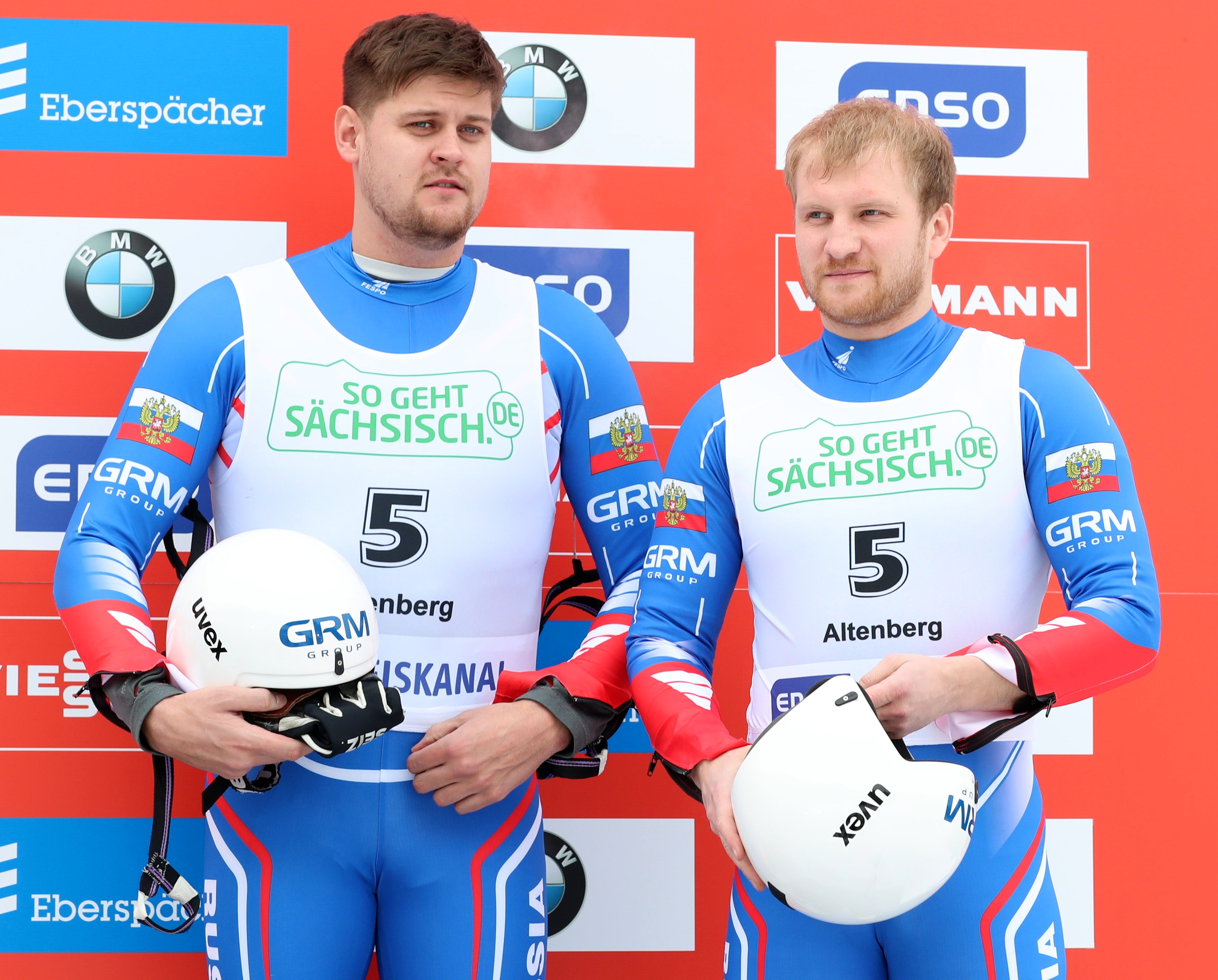 Doubles race at the Nations Cup at Altenberg Luge World Cup 2018/19